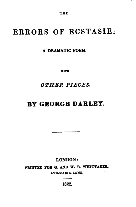 The title of book, 1822